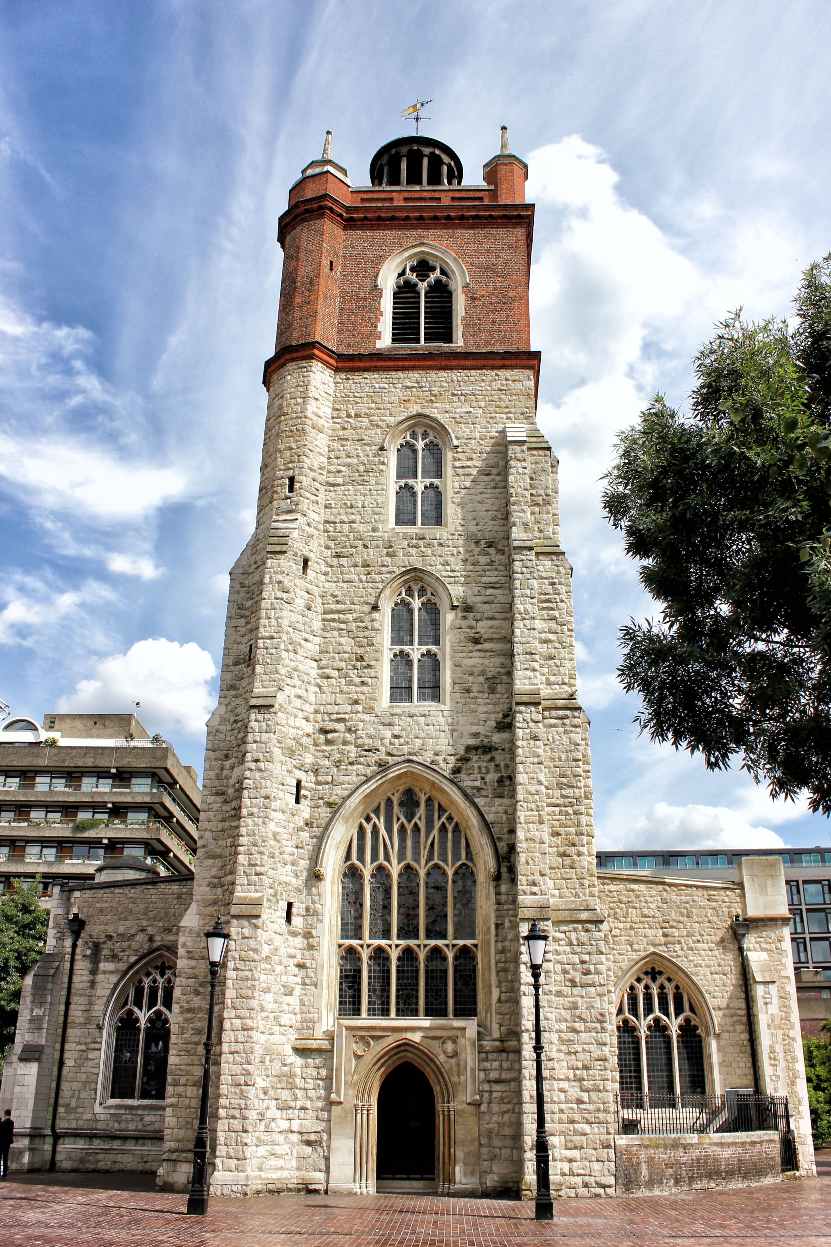 St Giles' Church-without-Cripplegate in the Barbican. A perpendicular gothic church with an open nave and side aisles in the London